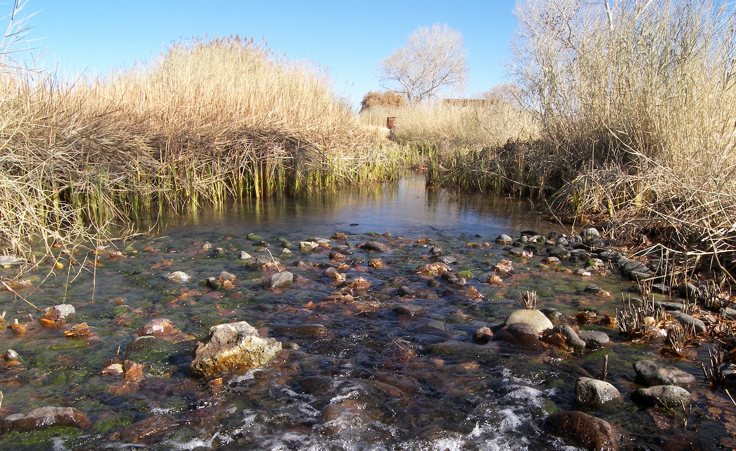 The Balmorhea State Park Cienega located near Balmorhea, Texas, United States.